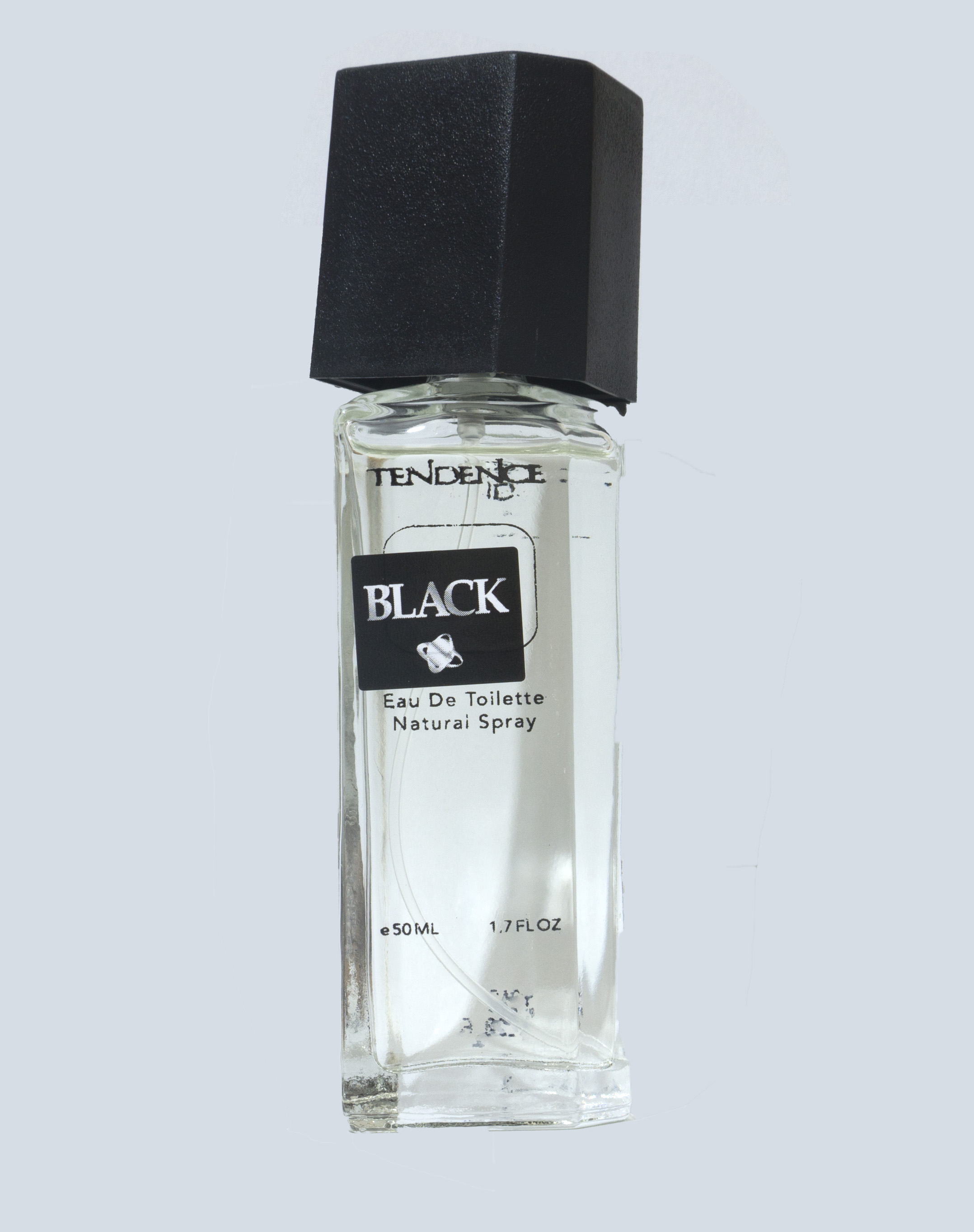 Bottle of Perfume brand Tendence Black, 50 ml